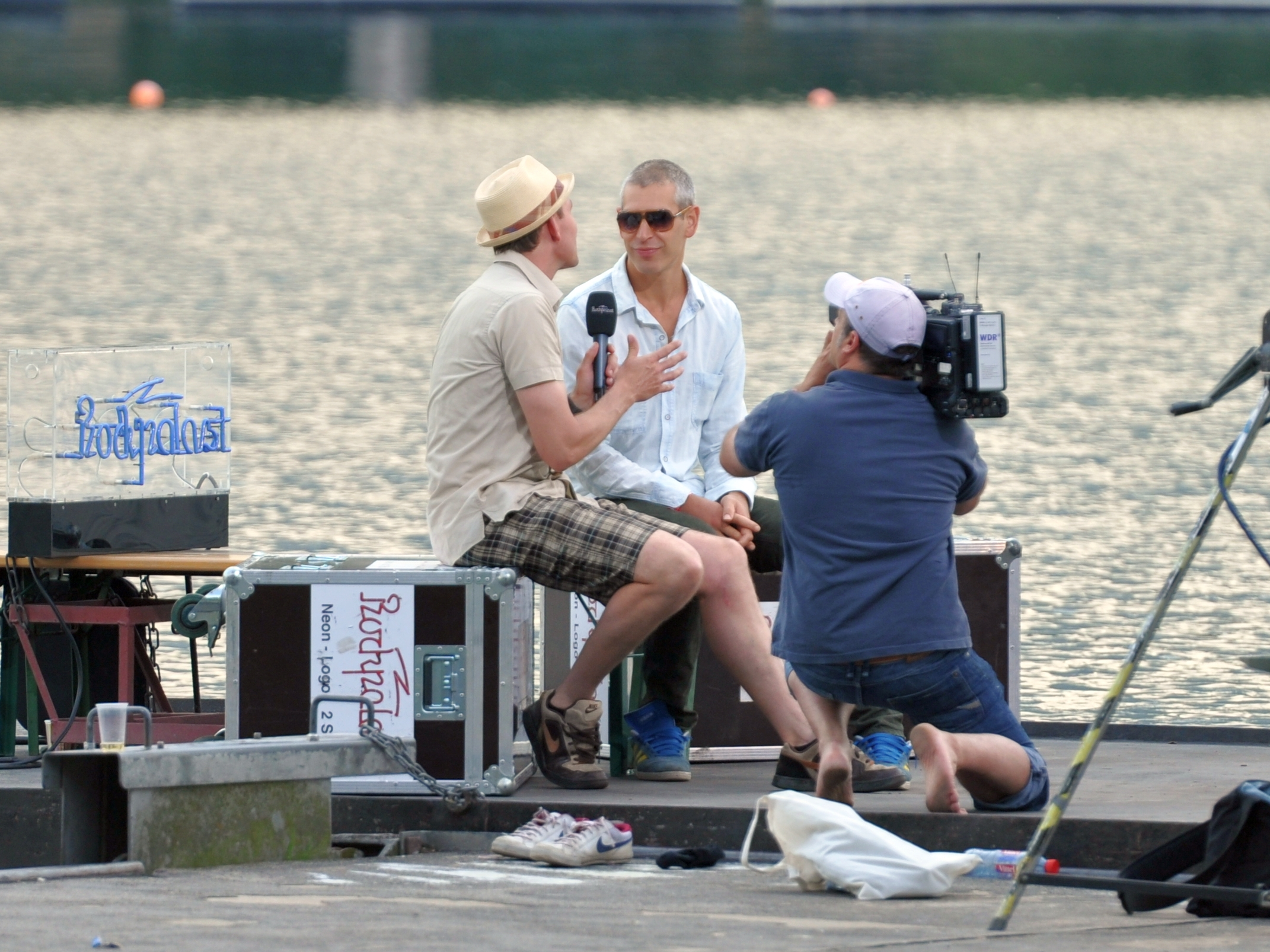 Matisyahu being interviewed by the Rockpalast Crew on the Summerjam Festival 2013, Cologne, Germany